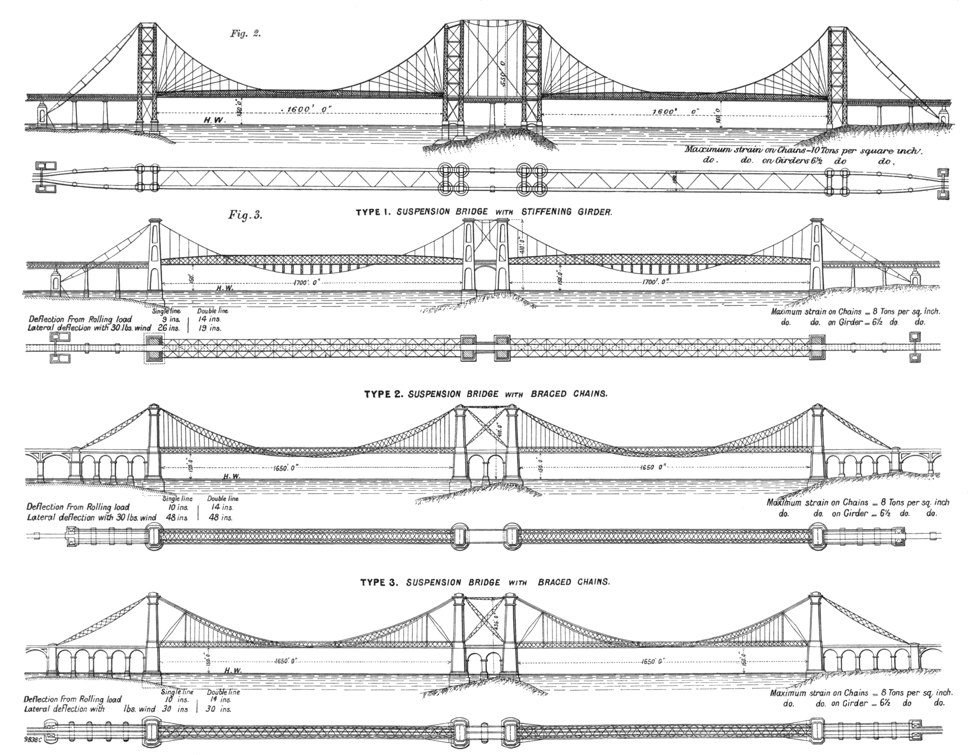 Alternative designs for the Forth Bridge